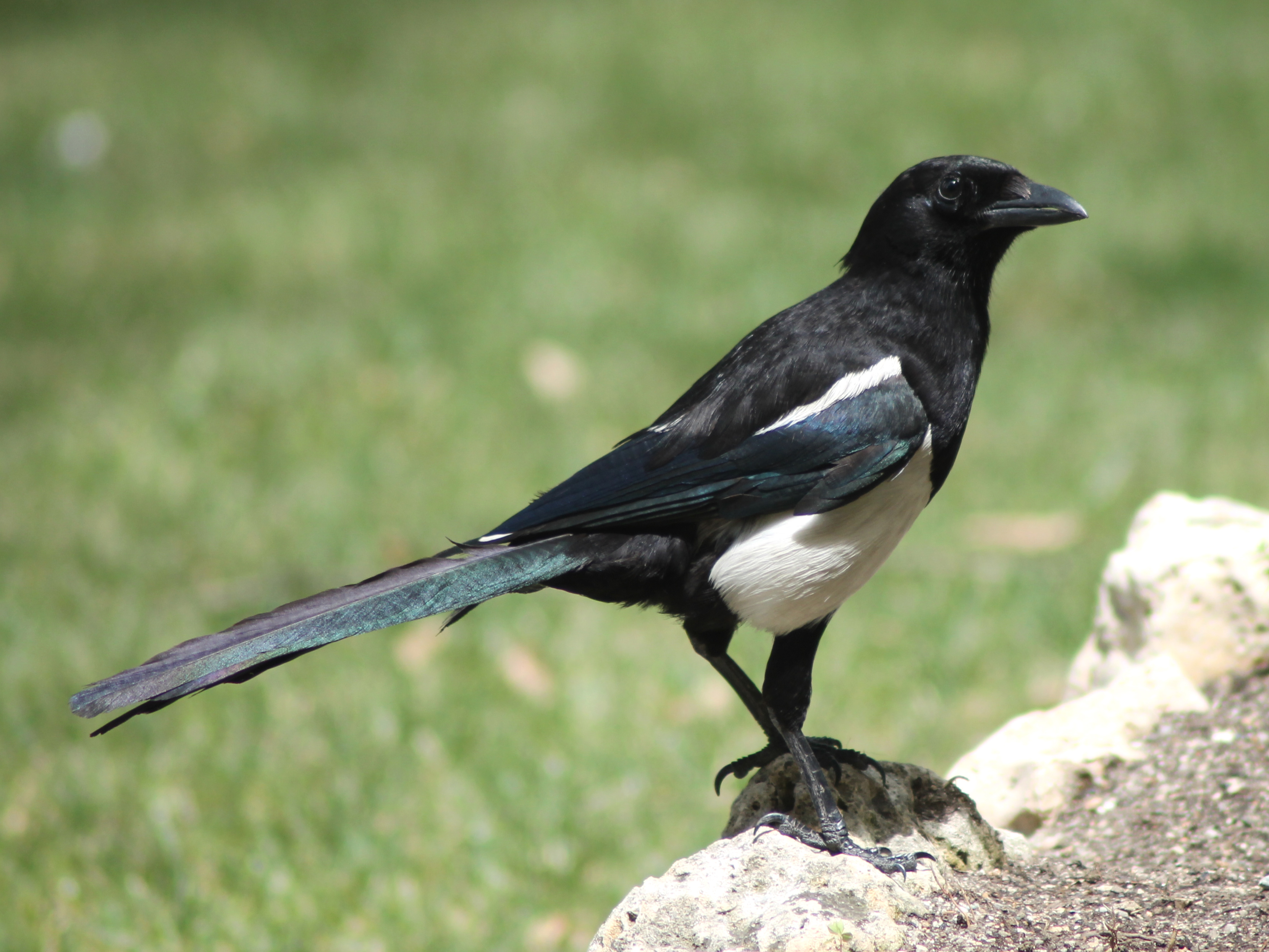 A European magpie (Pica pica) in Madrid (Spain).